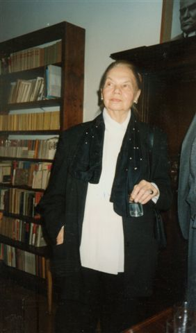 Julia Hartwig (1921-2017), Polish writer and translator